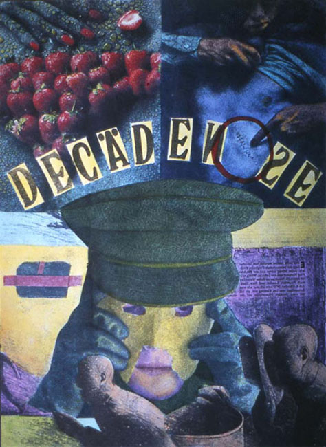 Description = Newspapers samples collage.Monotyping print (REcyclePRINT). Graphic paper sheet. Size: 50x70cm. Date = Created Autumn 1982 Source = Author = Slobodan Sajin AUX MANIR Slobodan Sajin 20:13, 7 September 2006 (UTC)AuxManir